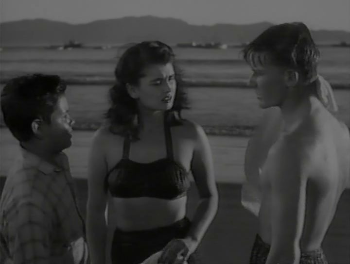 Jonesy (Dick Moore), Maria (Laurette Luez) and Jeffrey White (Roland Winters) in Killer Shark (1950)